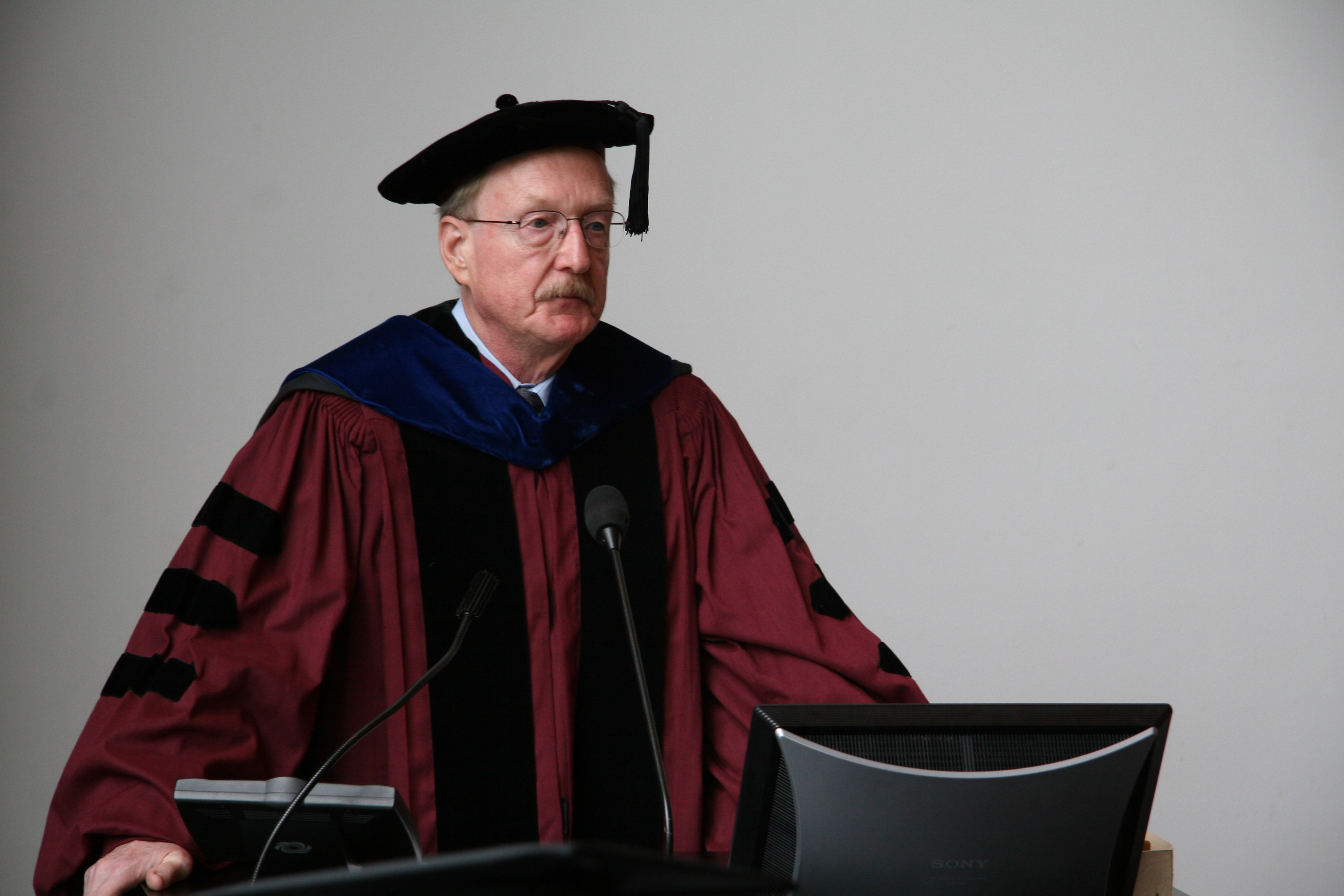 Alan Dowty delivering the commencement address at his alma mater, Shimer College in Chicago, on May 10, 2008. The speech was titled "Address.pdf From Shimer to Jerusalem".